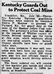 The Great Falls Tribune newspaper article reporting that Kentucky Governor Morrow sent two National Guard machine gun squads to Packard Kentucky to protect the Mahan Jellico Coal mine.